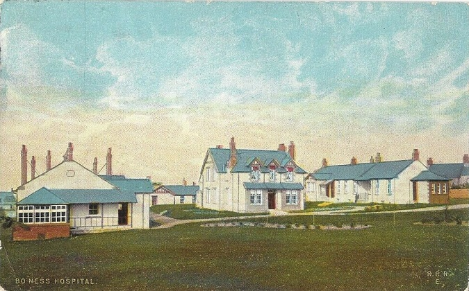 Old postcard showing Bo'ness Hospital